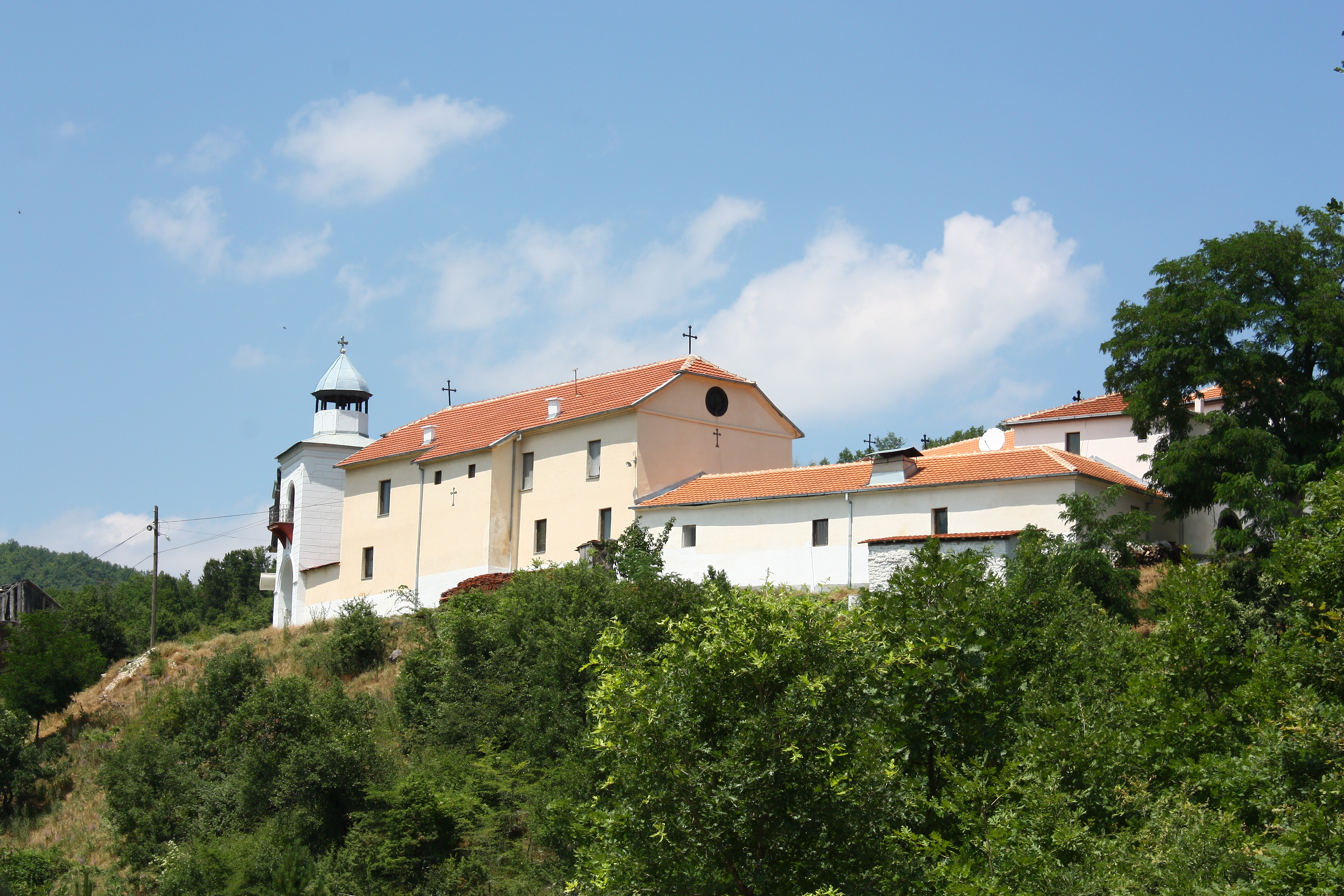 Poreče Monastery in village of Gorni Manastirec near Makedonski Brod, Macedonia